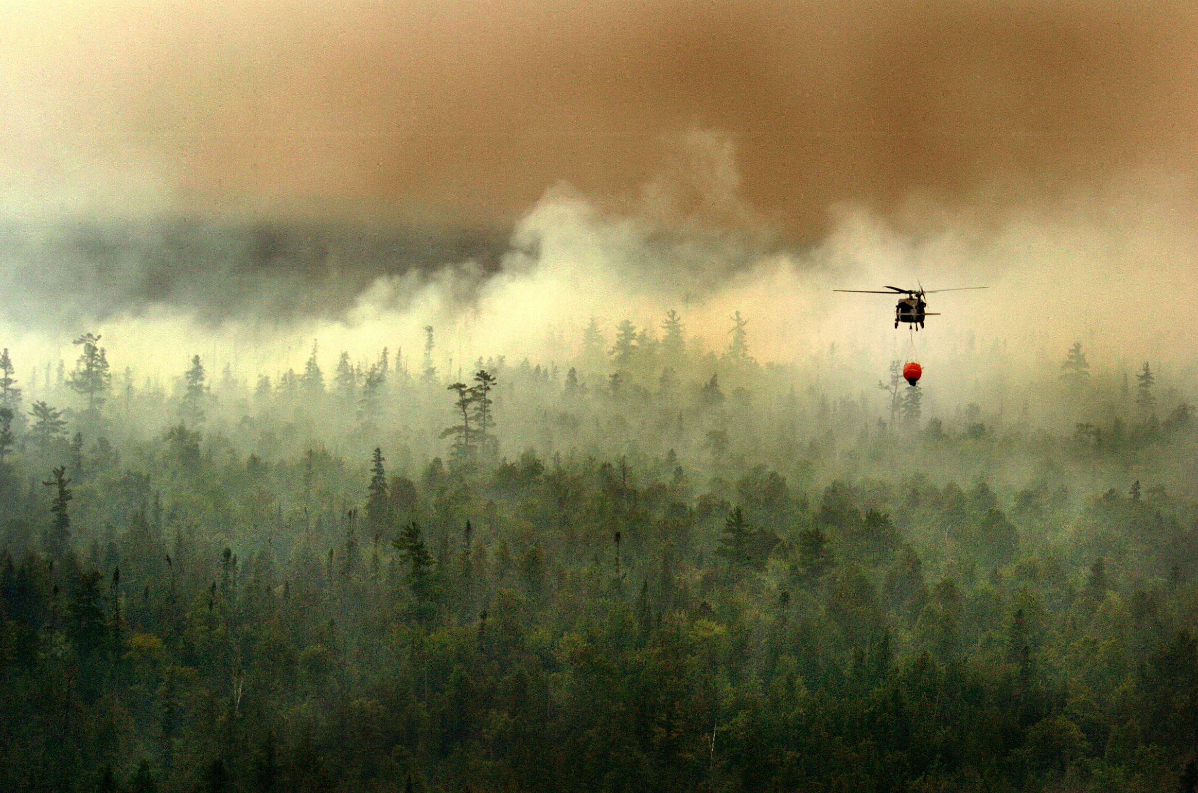 The Michigan Army National Guard uses a bambi bucket, an aerial firefighting tool suspended below a helicopter, to extinguish a fire 10 miles from Tahquamenon Falls State Park, Mich., Aug. 8, 2007. (U.S. Army photo by Staff Sgt. Helen Miller) The Sleeper Lake fire was one of the largest recorded in Michigan, burning over 18,000 acres (72 km2) but only destroyed one building.